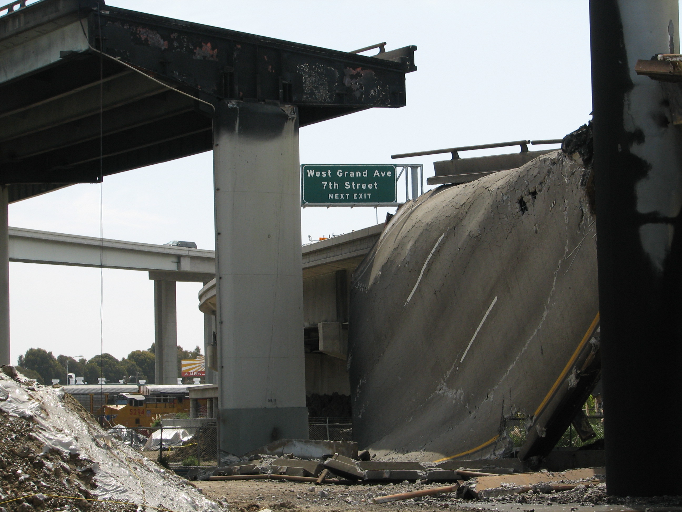 Taken 04/29/2007 - previously where I-880 runs under the I-580 connector